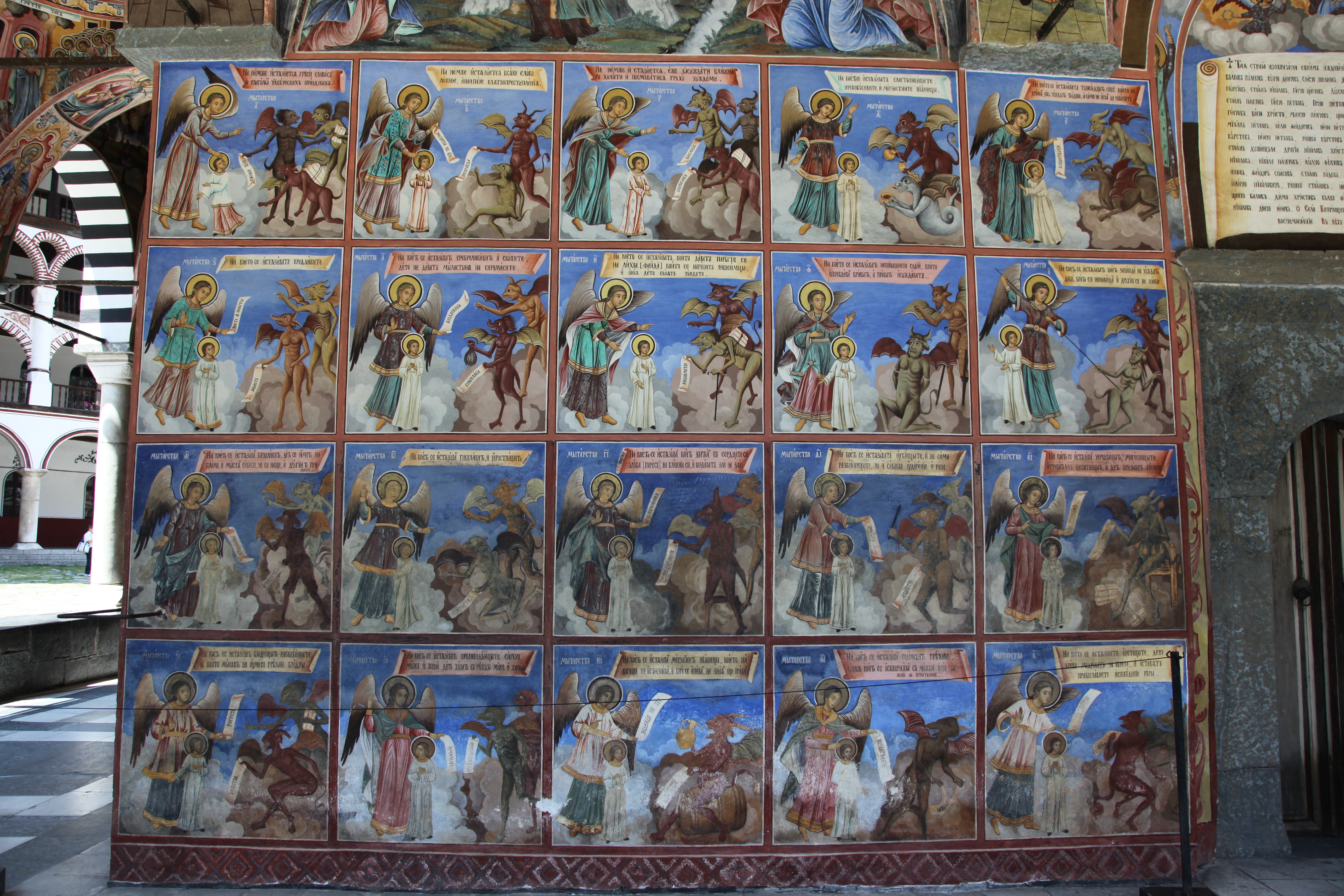 Dekorations on the outside of the church in Rila Monastery